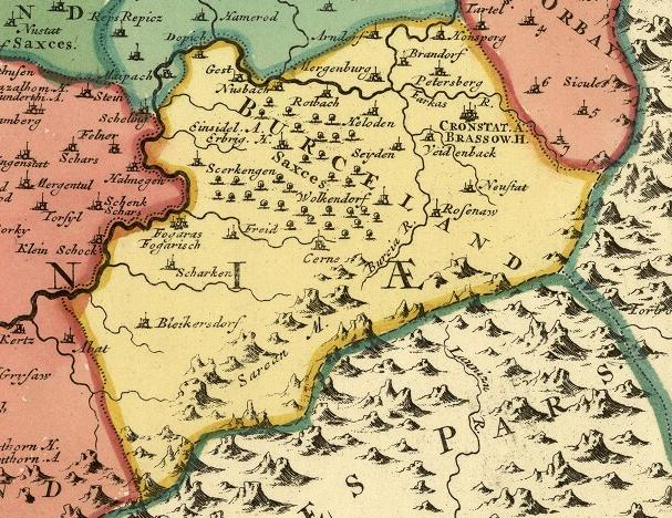 Map of Burzenland from the first half of the 18th century